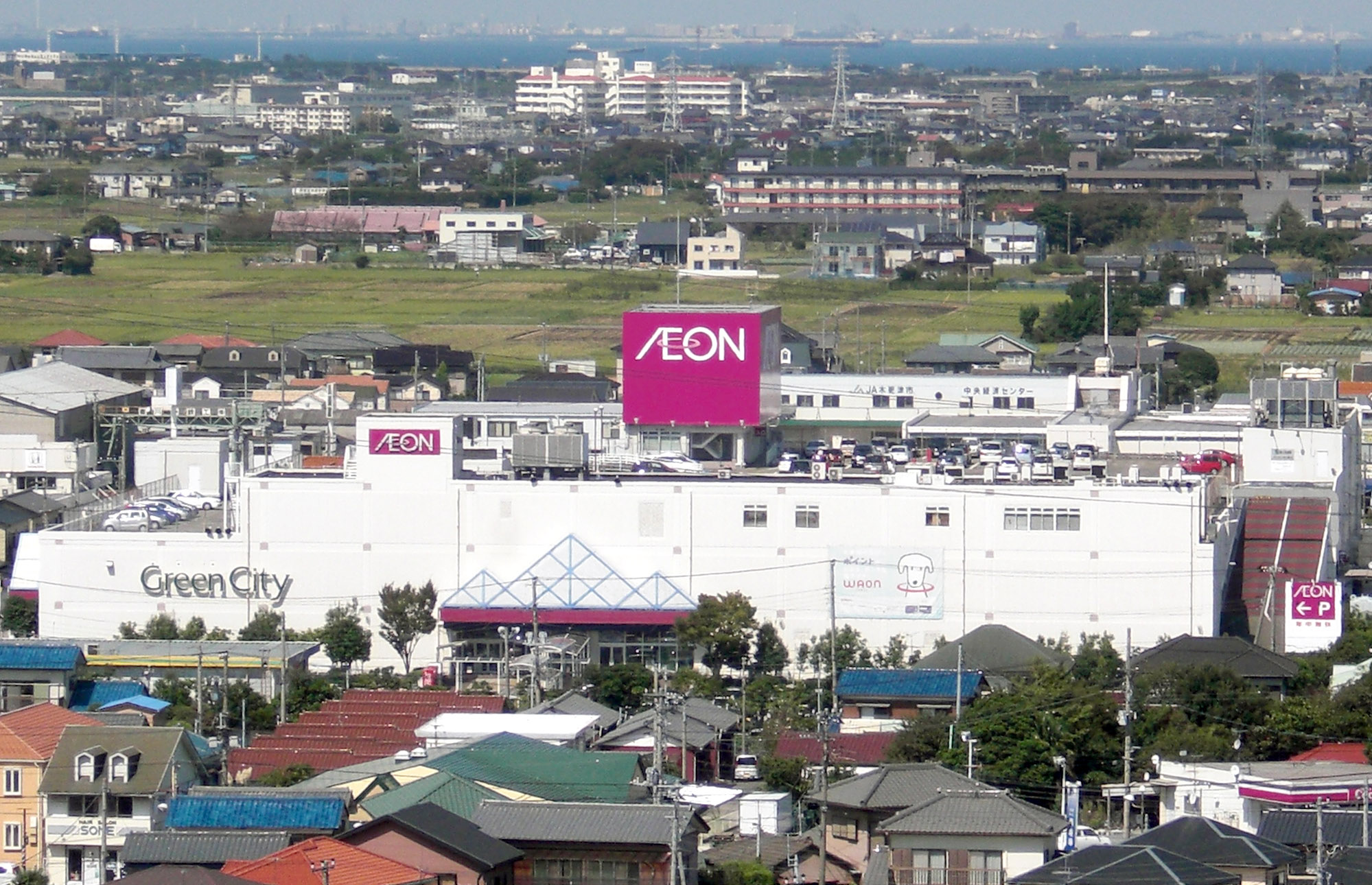 This is a shopping center in Kisarazu, Chiba, Japan. I took this picture from Kimisarazu Tower.